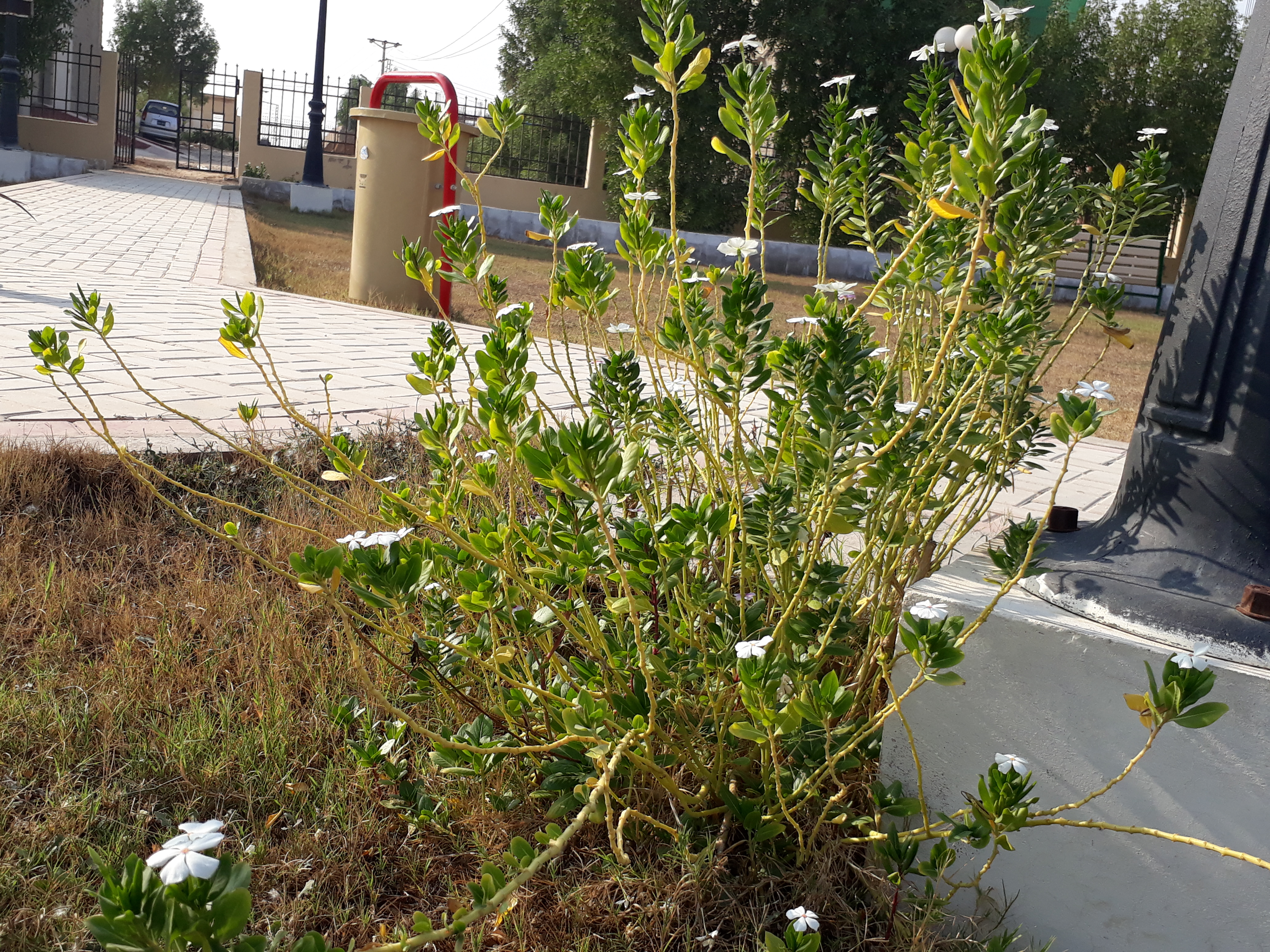 A picture showing a mature and fully grown shrub of Catharanthus Roseus